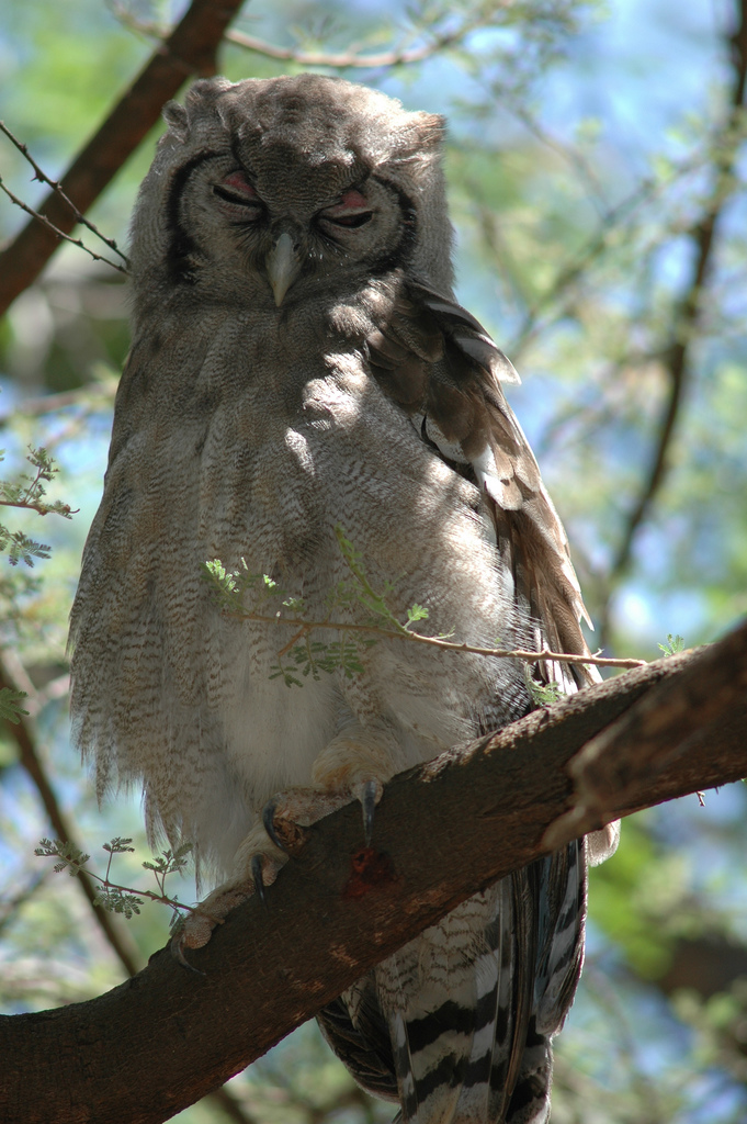 Verreaux's Eagle Owl (Bubo lacteus) in Larsens Camp, Samburu National Reserve, Kenya